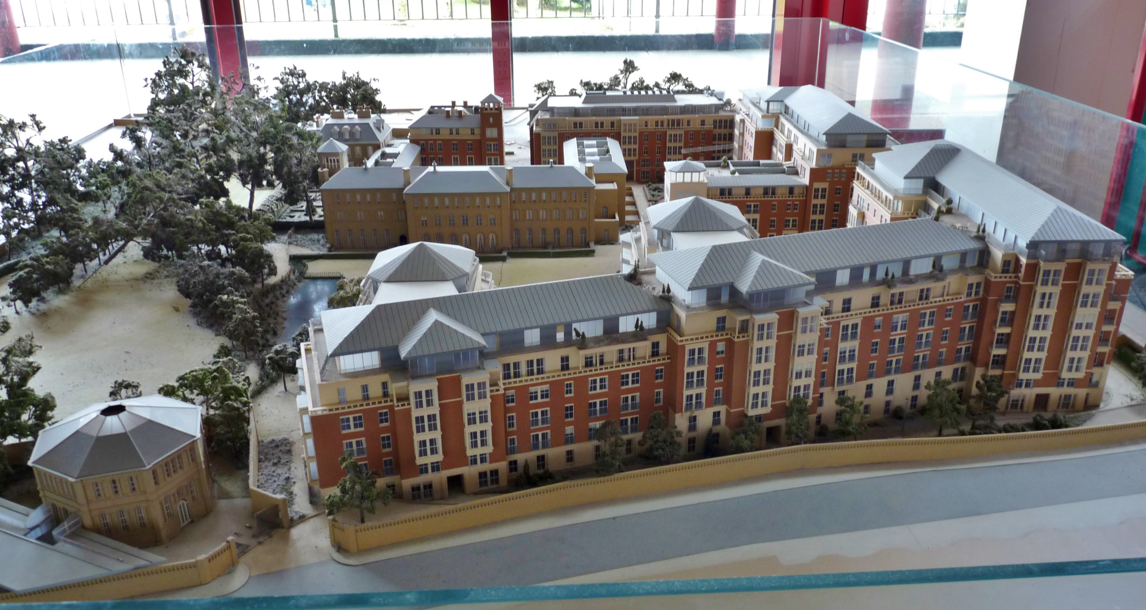 A model of the former Chelsea campus of the then College of St Mark and St John, before the institution moved to Plymouth in the 1970s.